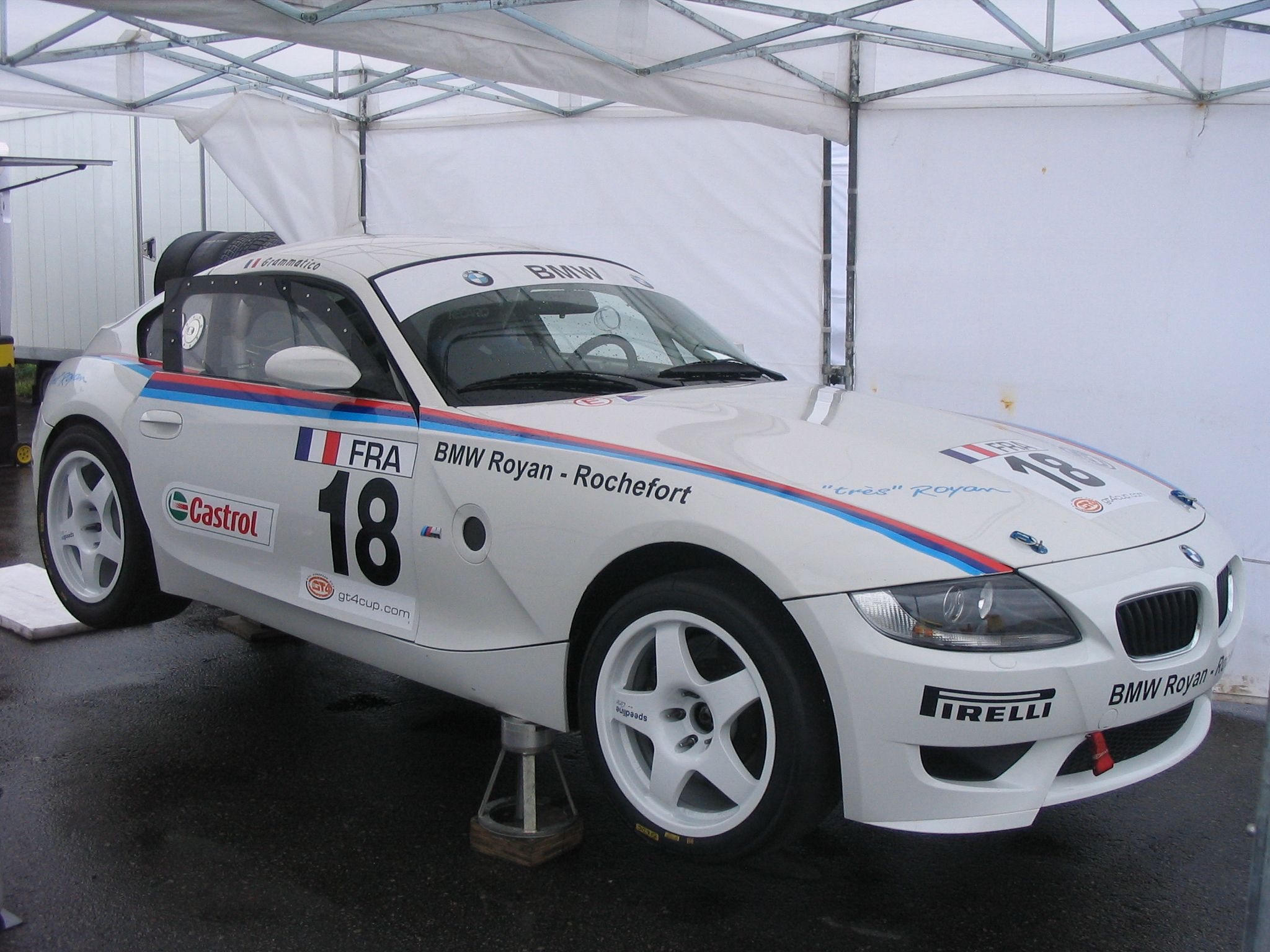 BMW Z4 driven by André Grammatico at the GT4 European Cup 2008 in Oschersleben. The car stand in a tent in the paddock.